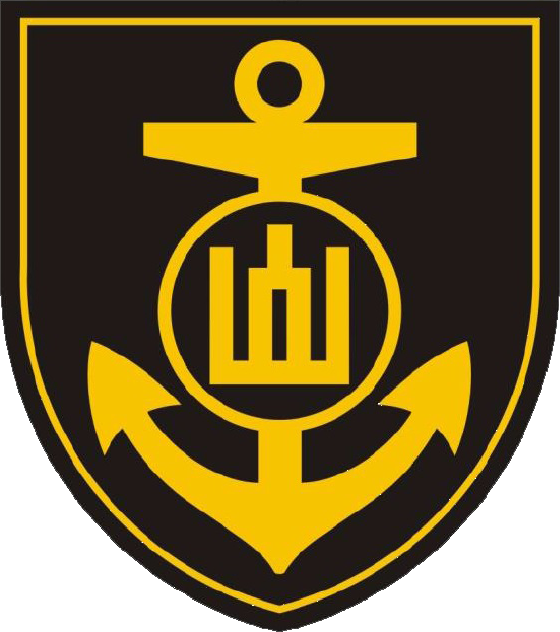 Insignia of the Lithuanian Naval Force